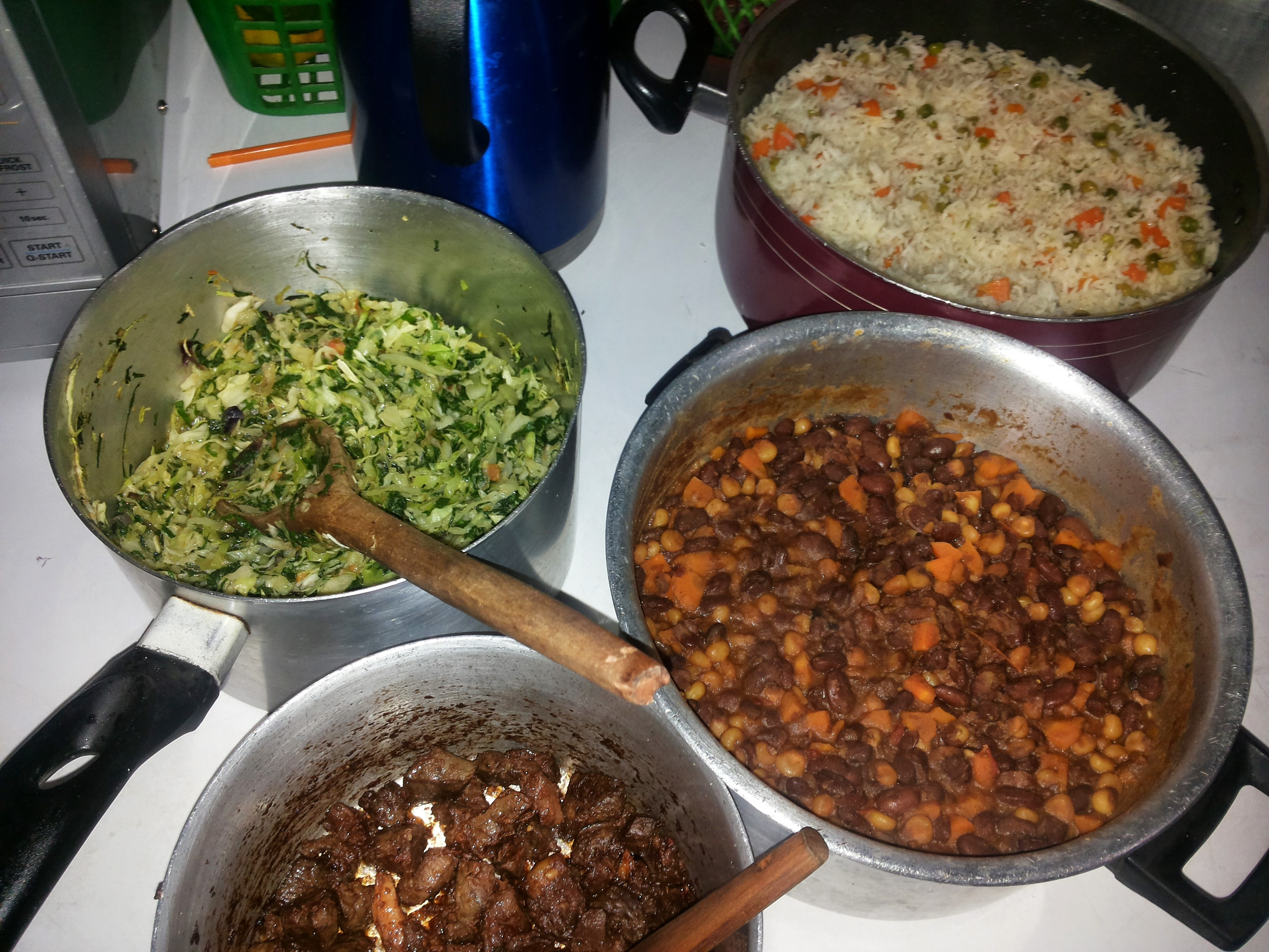 This is what you will find at a typical Kikuyu home. Githeri, a mix of maize and beans. There is liver in the first sufuria, cabbage and spinach mix in the next, githeri and then rice. This is an image of food from Kenya